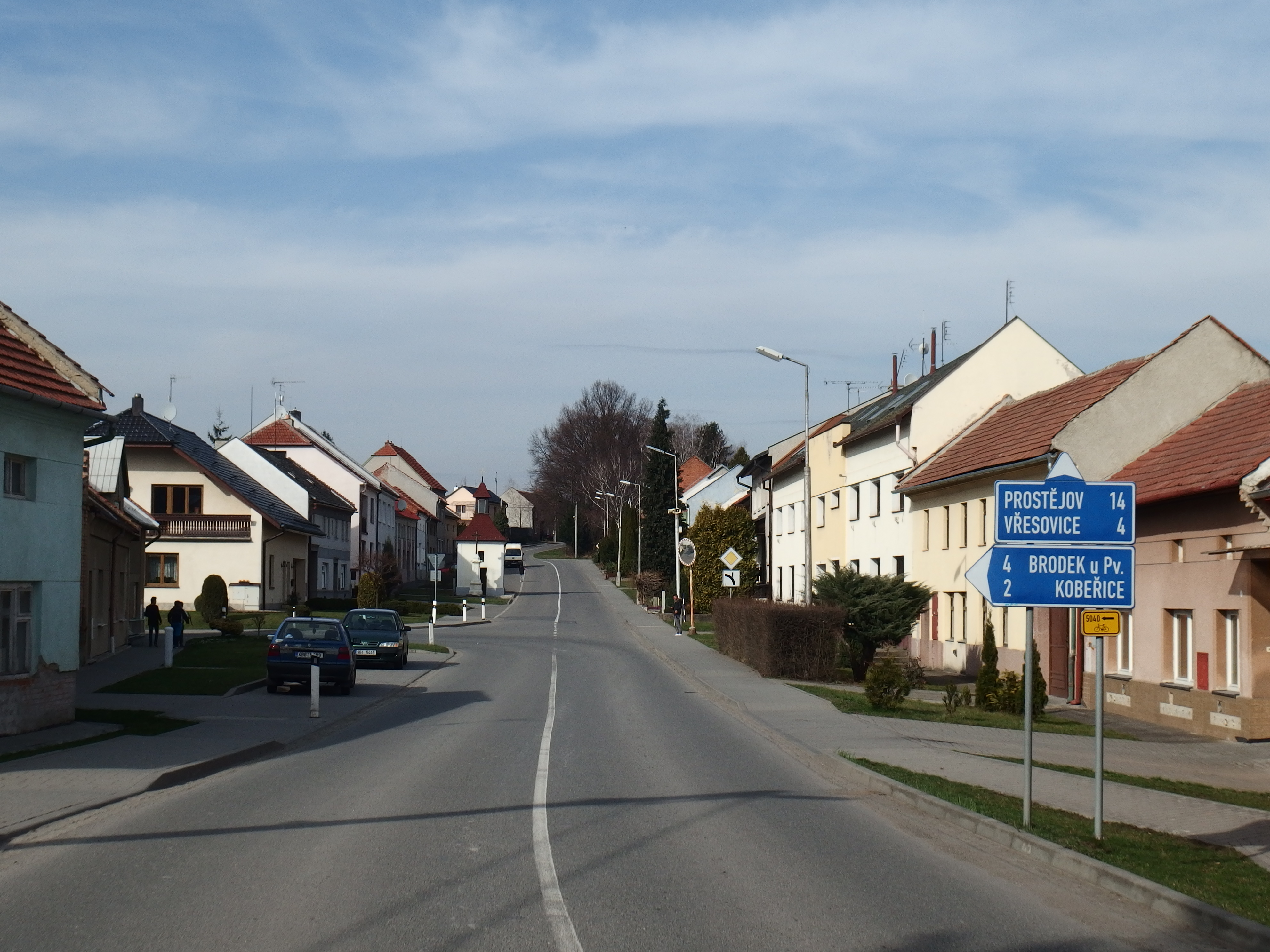 Hradčany-Kobeřice, Prostějov District, Czech Republic, part Hradčany.